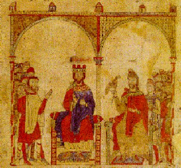 Frederick II, Holy Roman Emperor